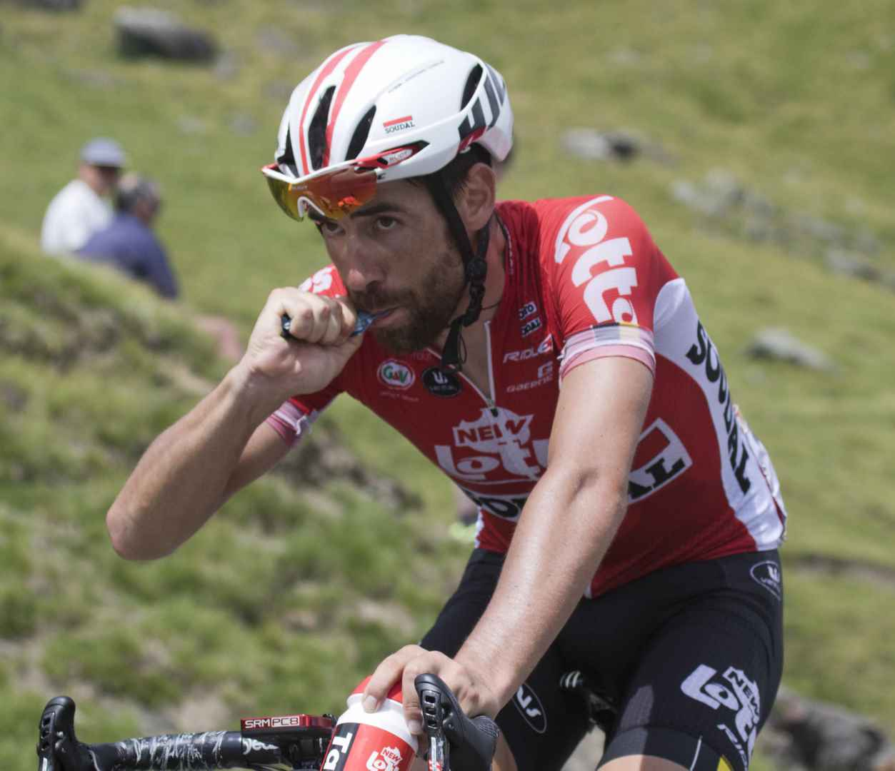 2018 Tour de France